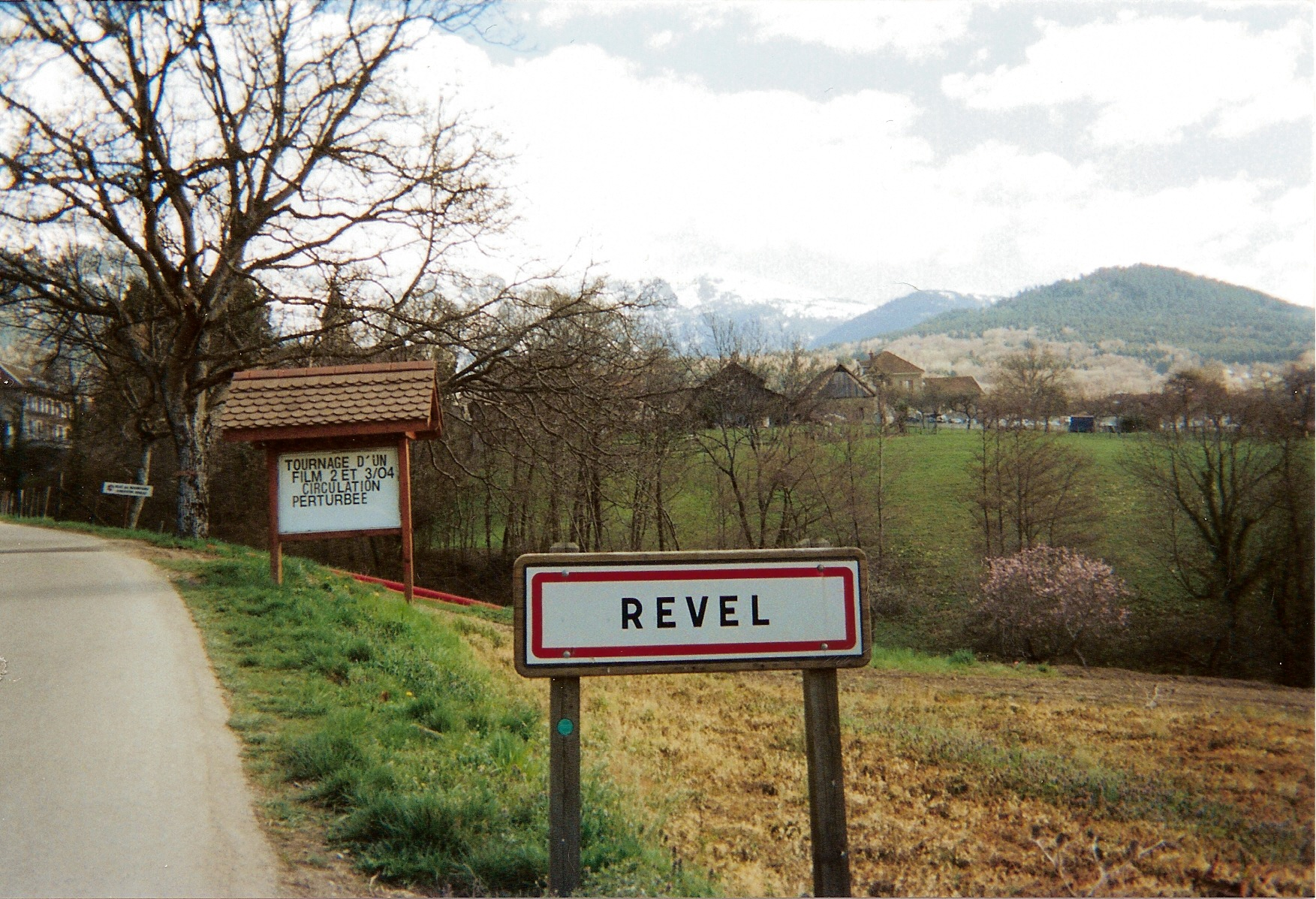 Announcement of the shooting of movie The Girl from the Chartreuse in Revel (France).